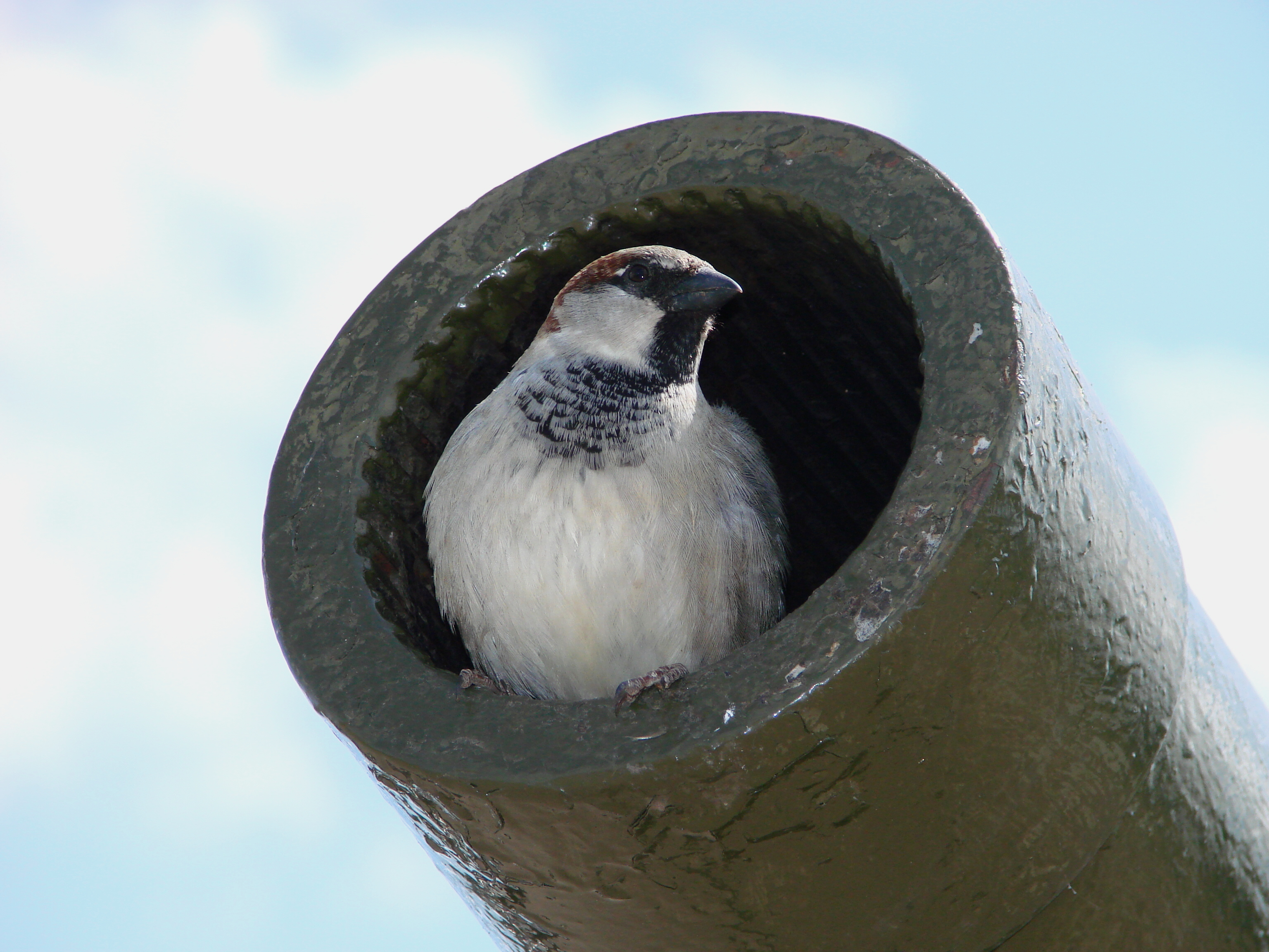 Male House Sparrow in the gun barrel of a tank at the Prokhorovka/Battle of Kursk memorial, Russia.